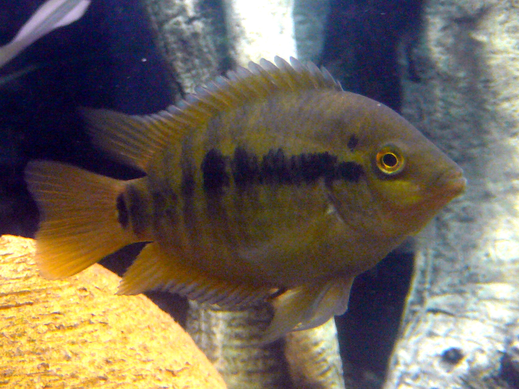 One of my rainbow cichlids